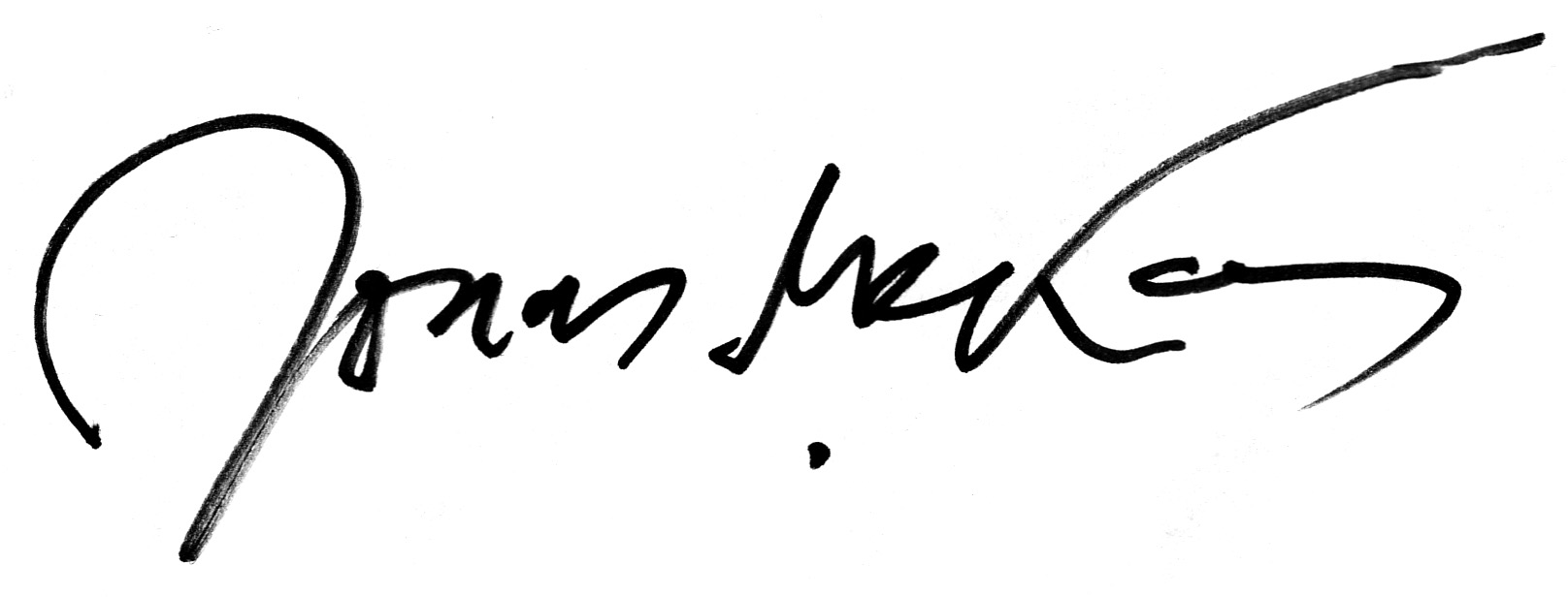 Jonas Mekas signature